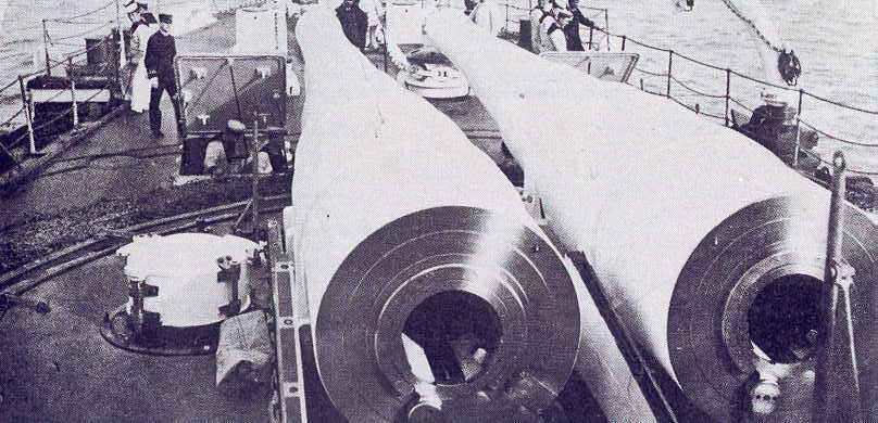 Forward 13.5-inch (343-mm) guns of British battleship HMS Royal Sovereign (1891)